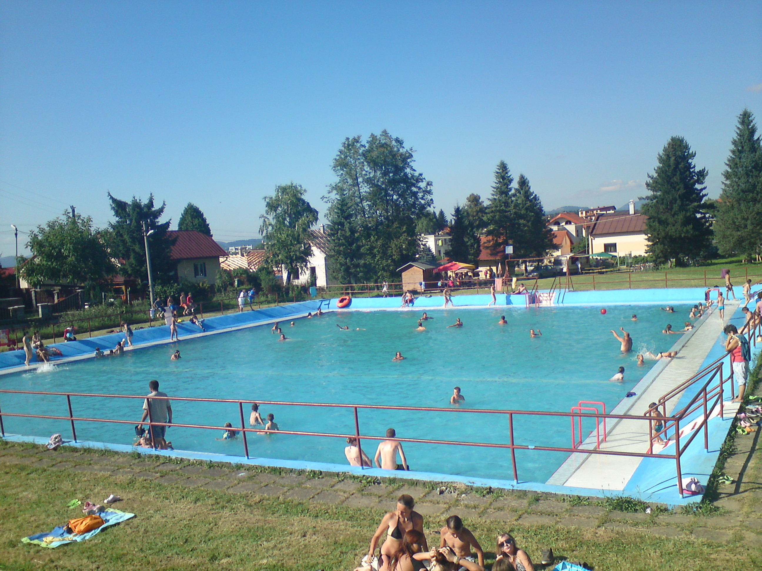 Visnove - swimming pool